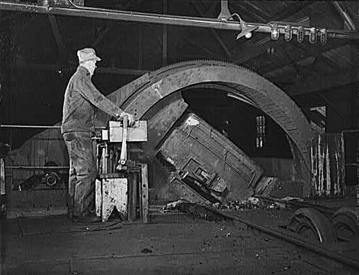 Pittsburgh, Pennsylvania (vicinity). Montour no. 4 mine of the Pittsburgh Coal Company. Rotary dump which empties coal cars into a chute which conveys the coal to railroad cars beneath.